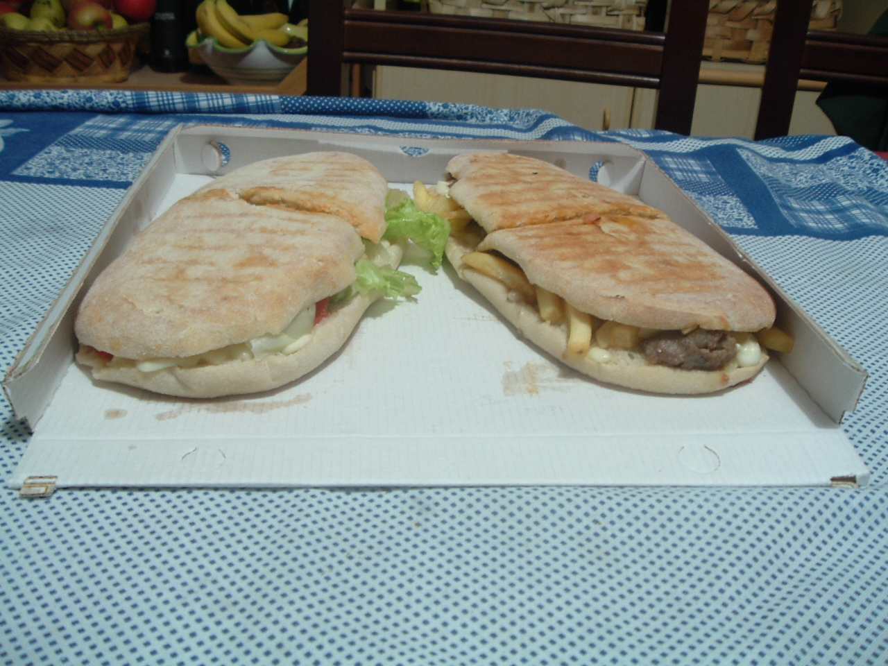 A couple of panuozzi, panini made with pizza bread, typical food from Gragnano, near Naples